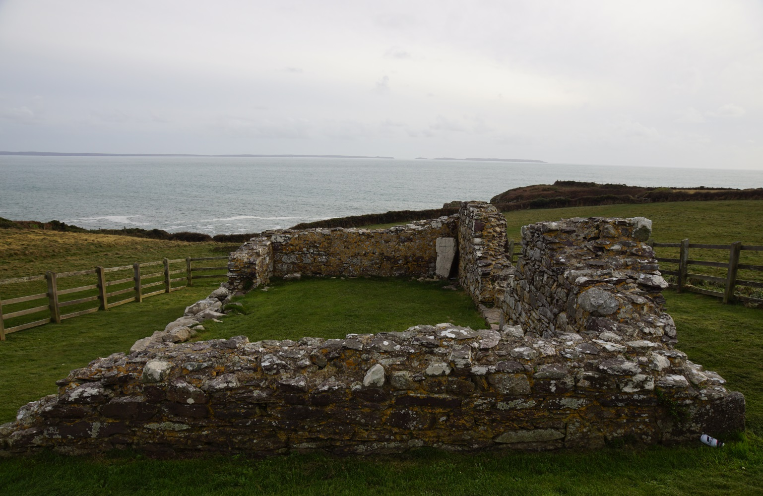 St Non's Chapel, St Davids, Wales. View from the north.